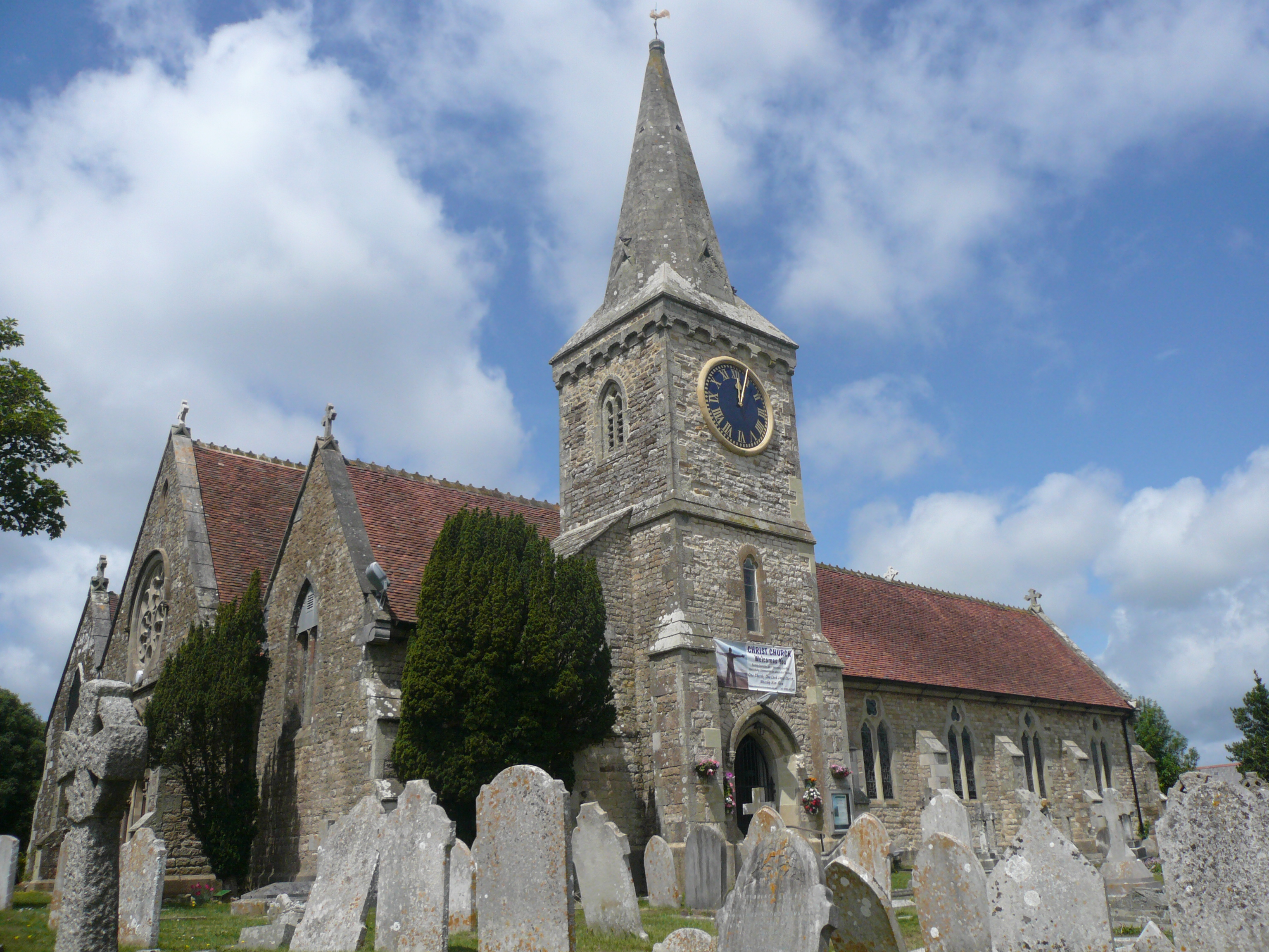 Christ Church, Broadway, Sandown, Isle of Wight